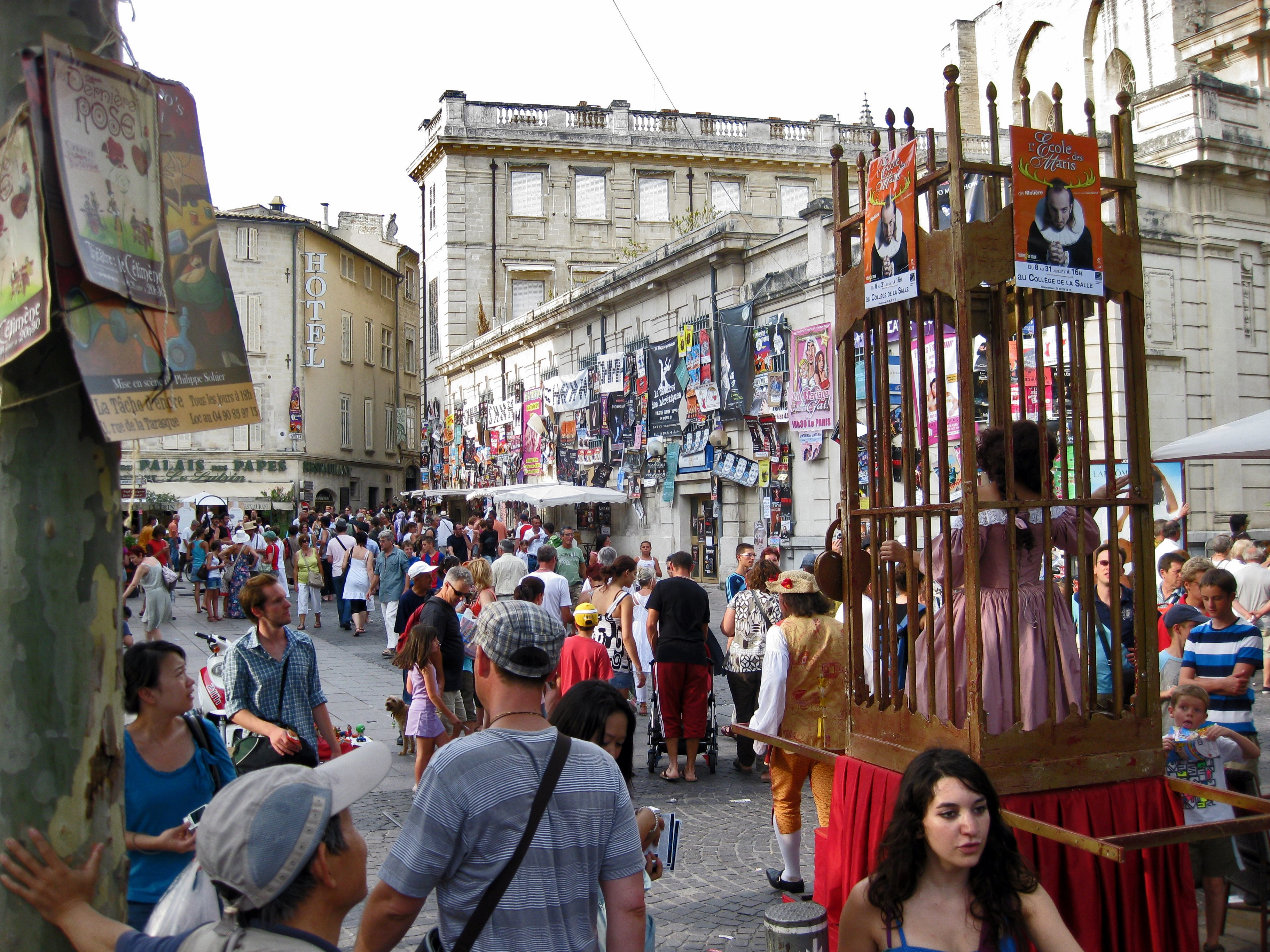 Festival d'Avignon, streets are full of people, and the walls plastered with posters for theater